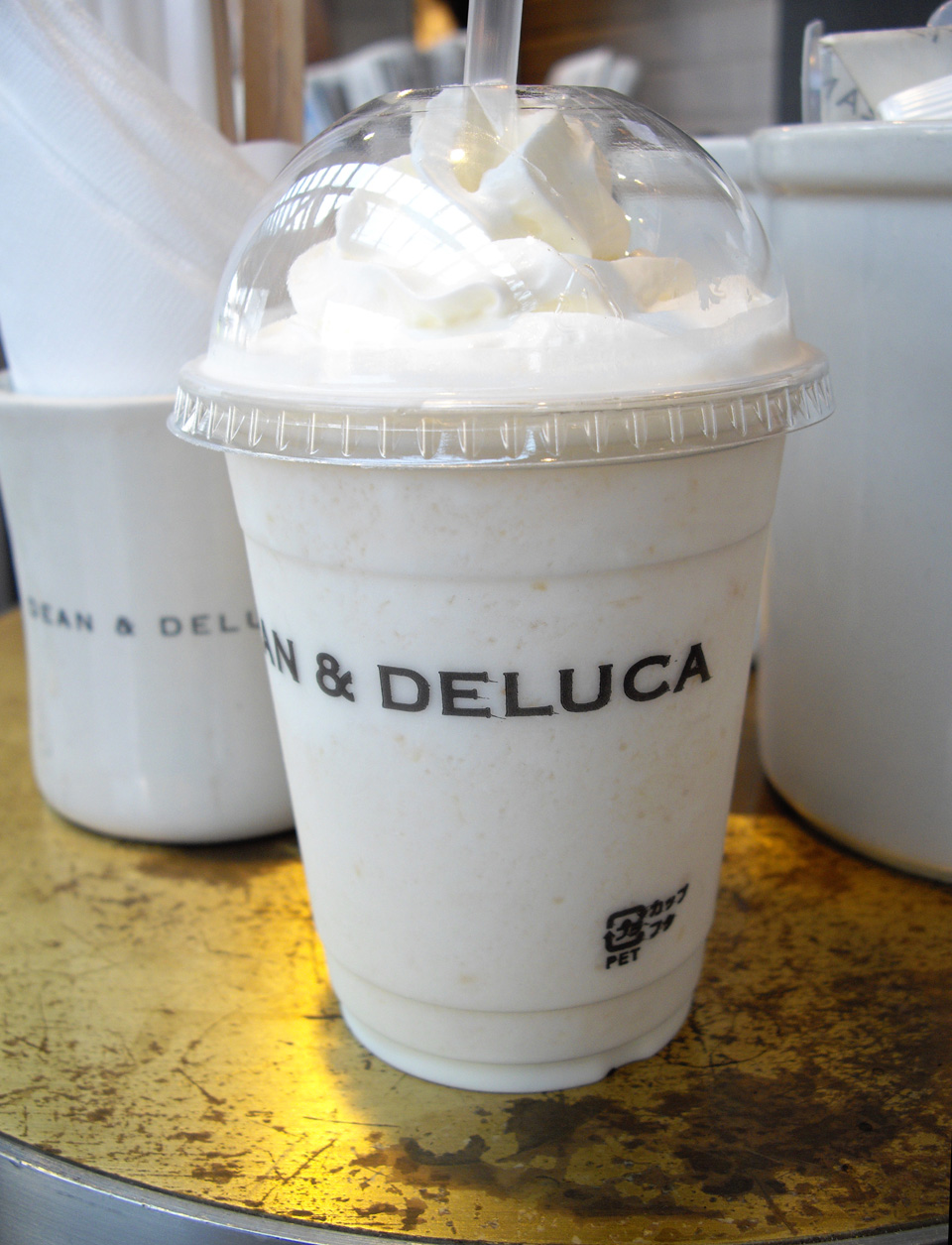 Dean & DeLuca in Japan